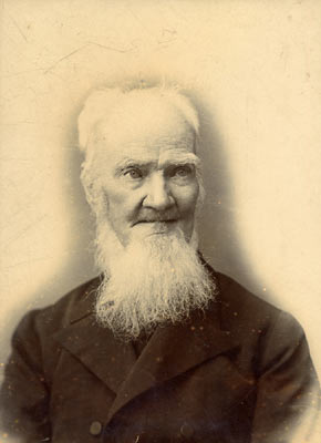 Henry Hare Dugmore, South African missionary, writer and translator